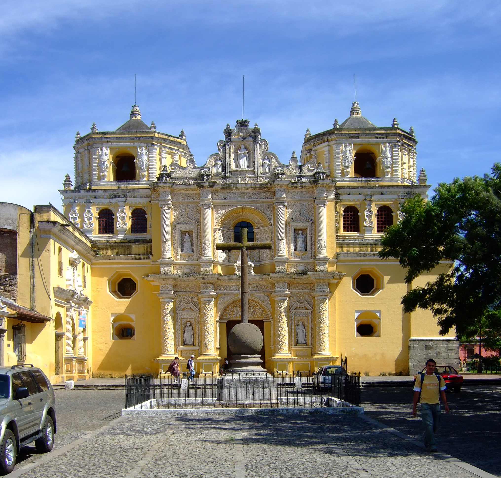 La Merced Church, Antigua Guatemala